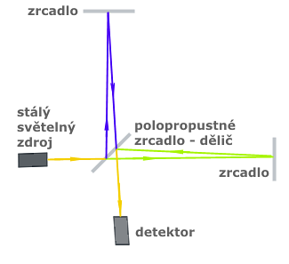 Interferometer diagram with czech description.